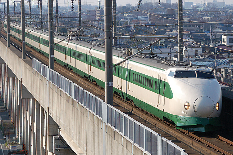 200 series shinkansen set F19 (original style, original colour) オリジナルスタイルの200系新幹線電車。